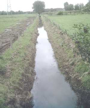 The picture displays the "Kanal III C" near Süchteln, Germany.